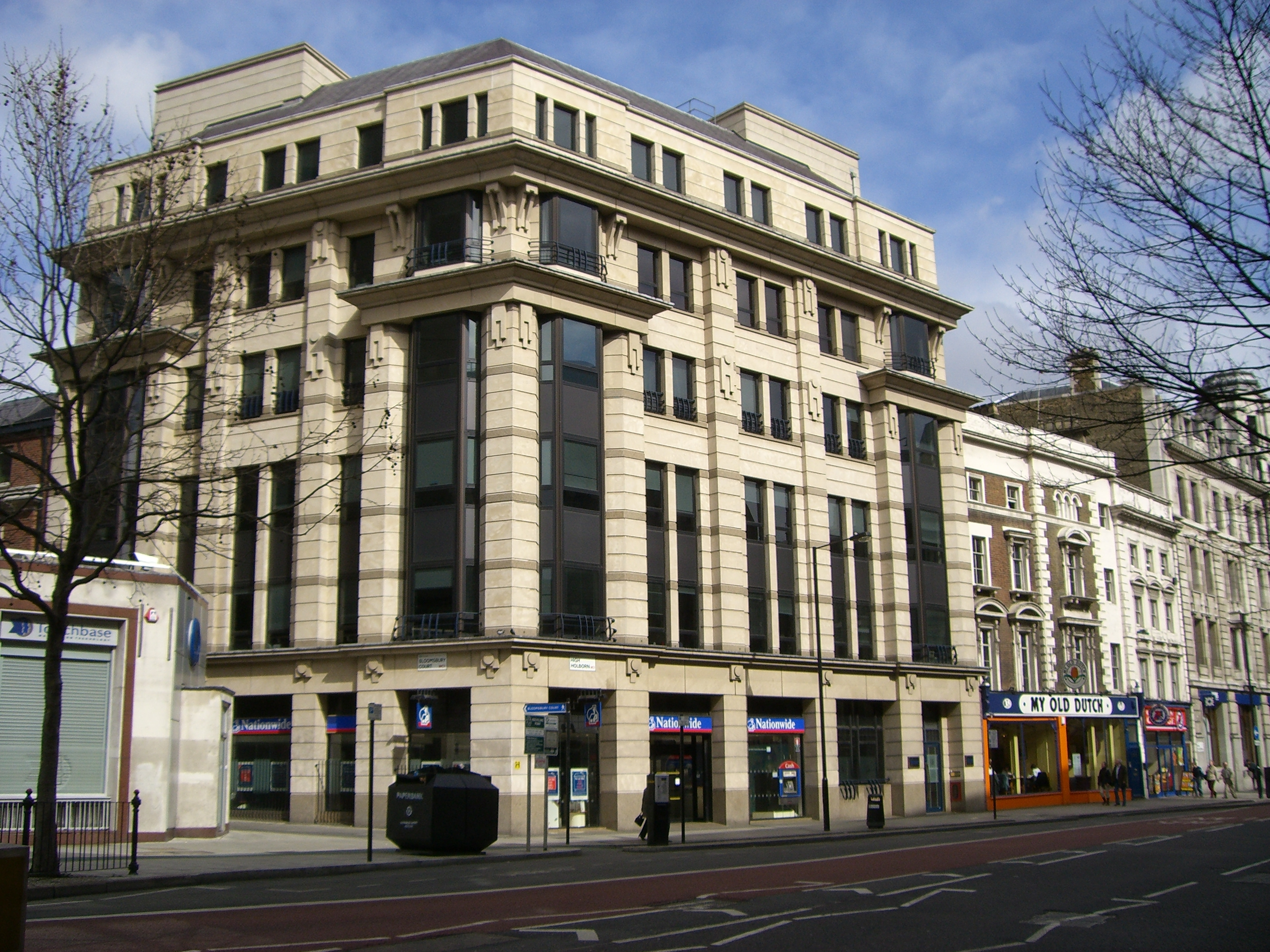 Nationwide Building Society building on High Holborn, at the former location of the British Museum tube station. Photo taken by User:Edward on 25 March 2006 with a Casio EX-S600.